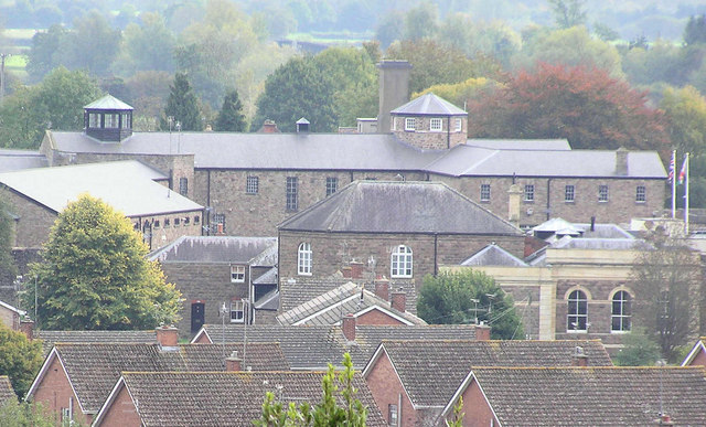 Usk Prison Originally opened in 1844 as a House of Correction. In 1870 after the addition of other buildings, it became the County Gaol for Monmouthshire. It remained in that role until 1922 when it closed, reopening in 1939 as a Closed Borstal and continued in that role until 1964 when it became a Detention Centre. In 1983 Usk became a Youth Custody Centre and from 1988 to 1990 a YOI. In may 1990 it became an Adult Cat C establishment for Vulnerable Prisoners and continues in that role today.